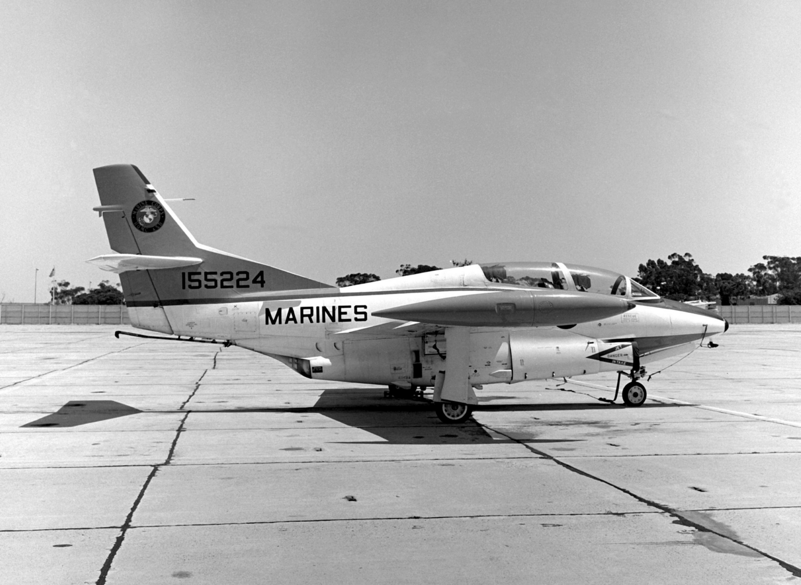 A U.S. Marine Corps North American Rockwell T-2B Buckeye aircraft (BuNo 155224) parked at the U.S. Naval Air Station, North Island, California (USA), on 7 May 1976.